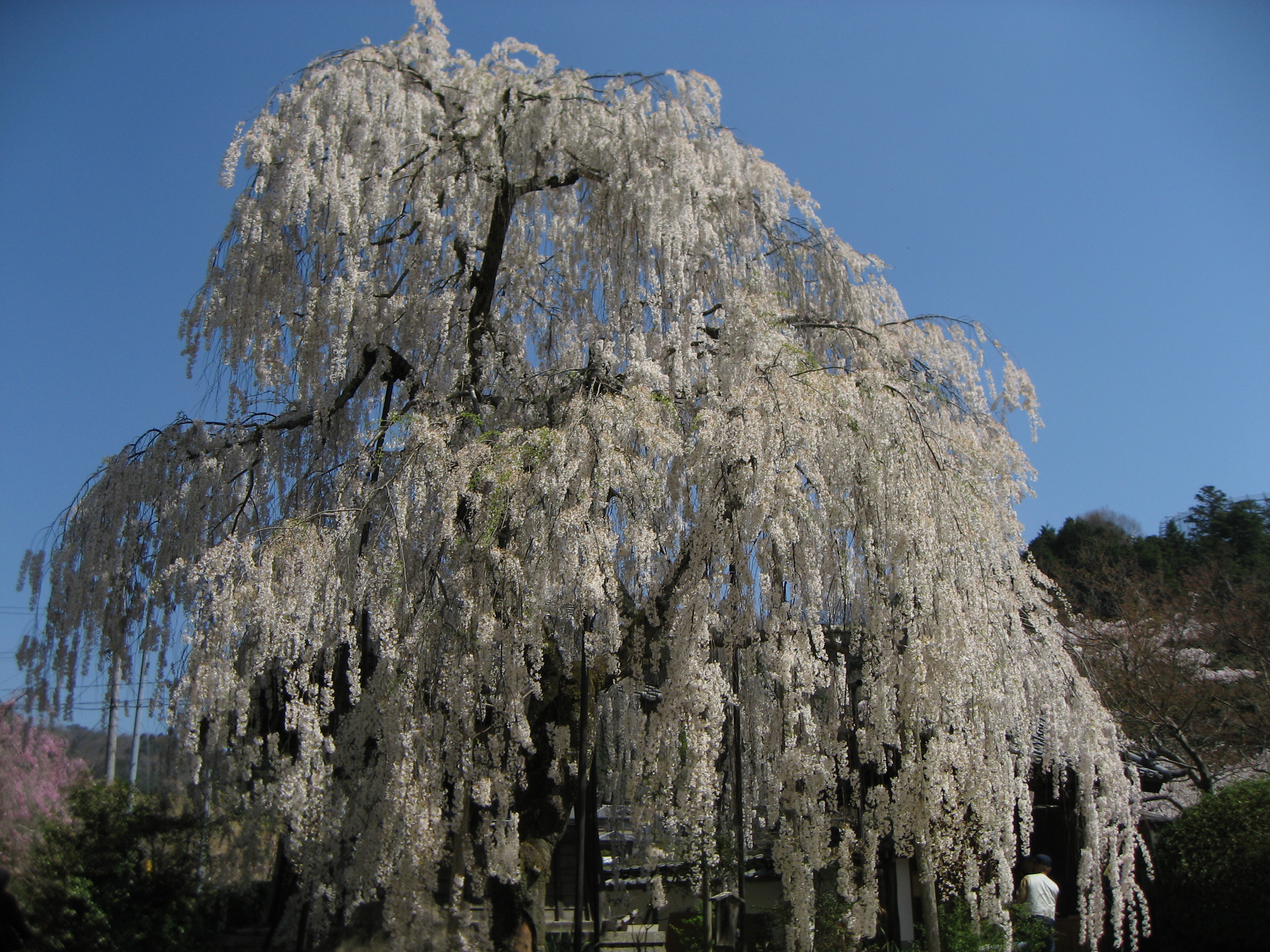 Cerasus spachiana f. spachiana, at Ōno-dera,Date taken(YYYY-MM-DD): 2009-04-11 Place taken: Ōno-dera, Murō, Uda, Nara, Japan.